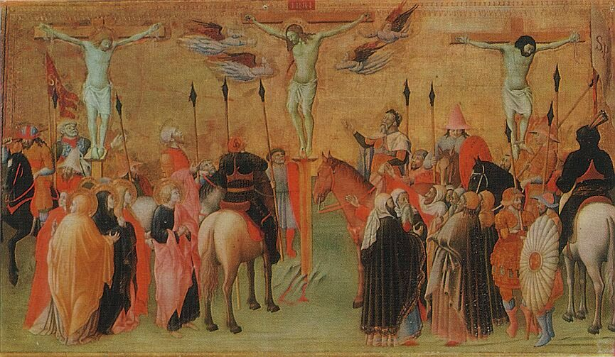 Maestro dell'Osservanza. Crucifixion. 1440-44, Kyiw, Khanenko Museum